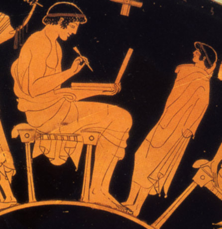 Ancient greek man with wax tablet Painting by ancient greek painter Douris (about 500 BC) Museum Berlin